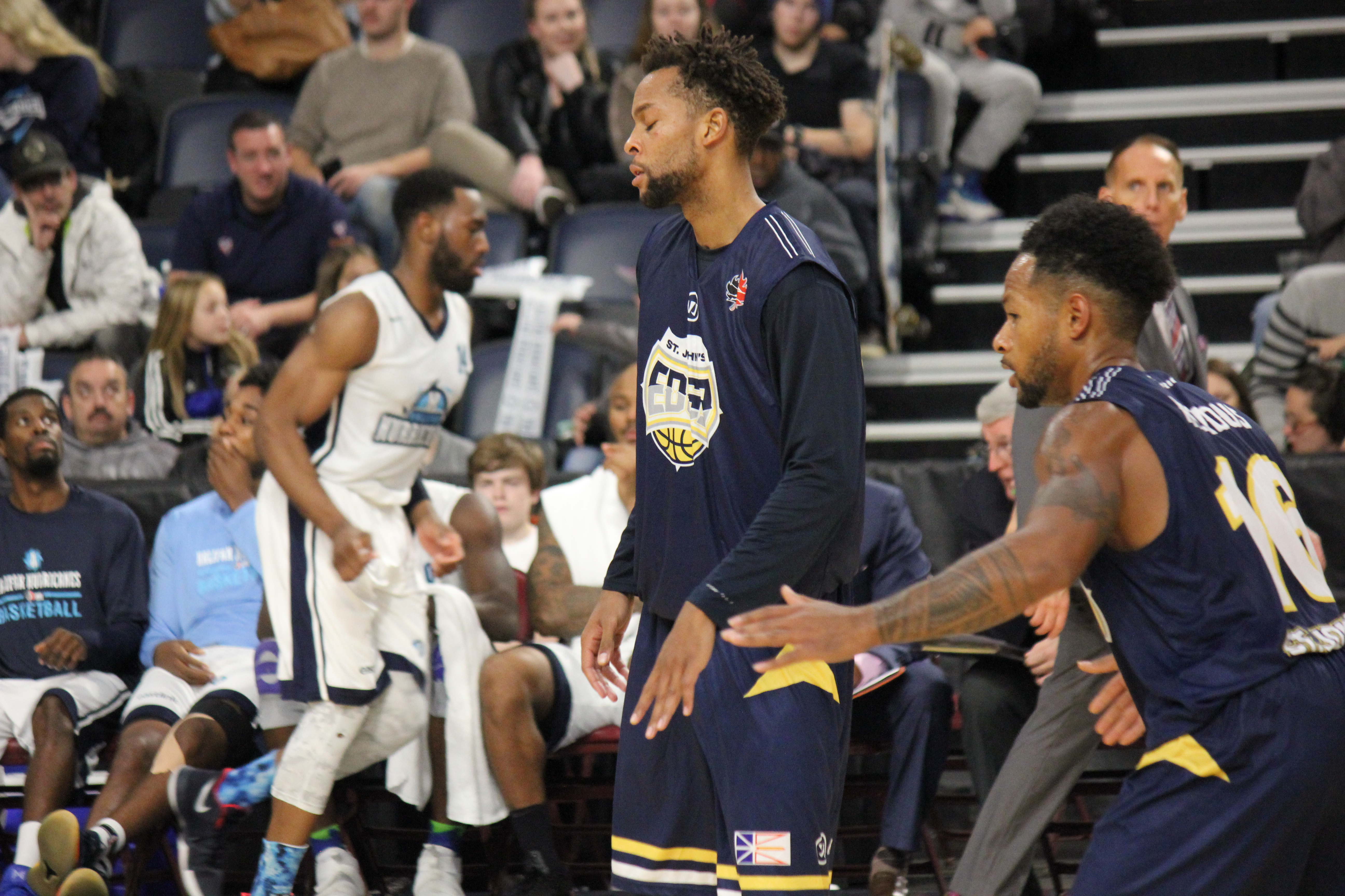 halifax